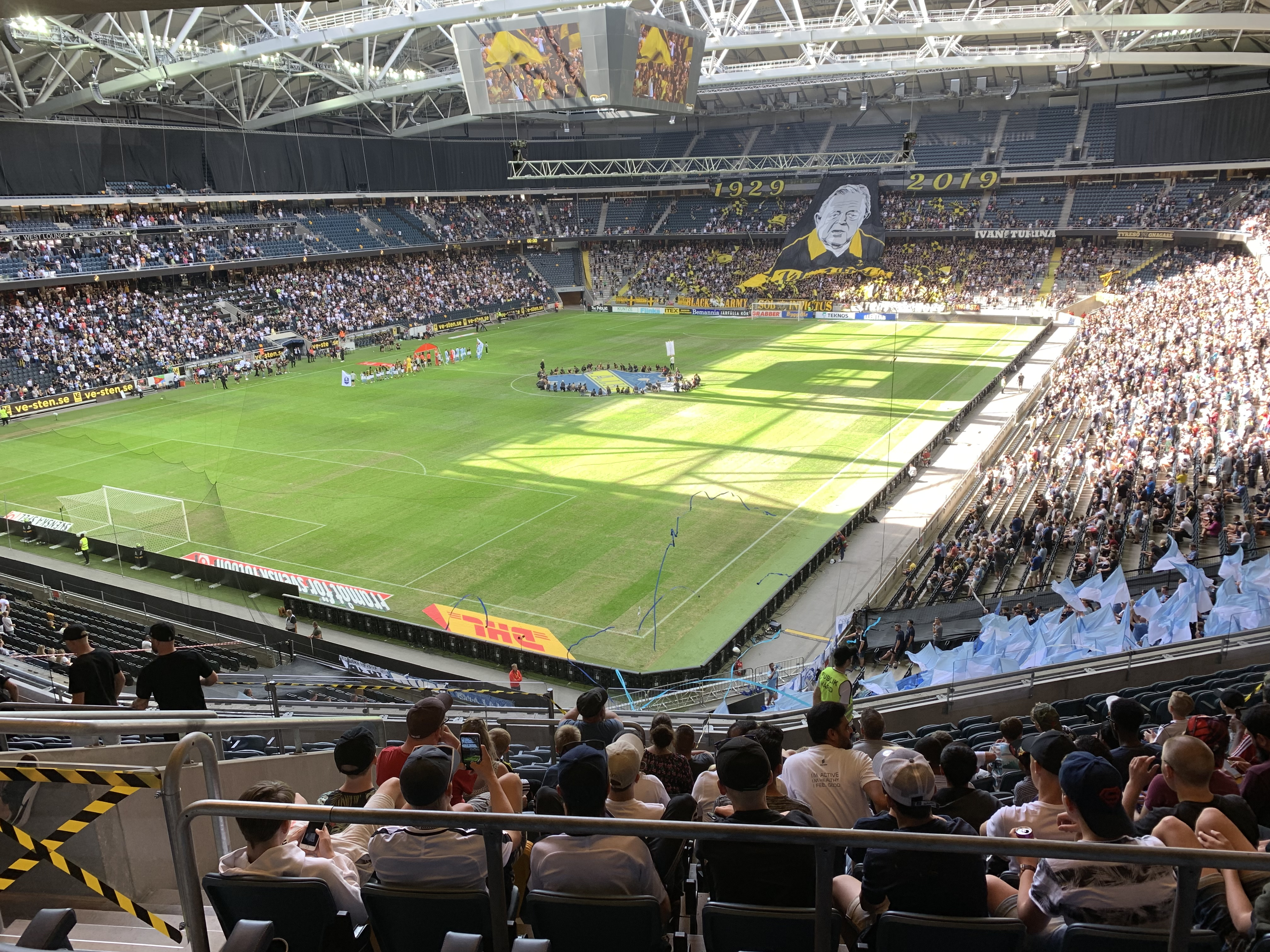 Tribute to Lennart Johansson at Friends Arena, Solna, Sweden, 30 June 2019.